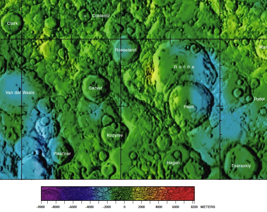 Part of the USGS far side lunar chart